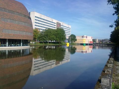 Groningen University Campus, Zernike